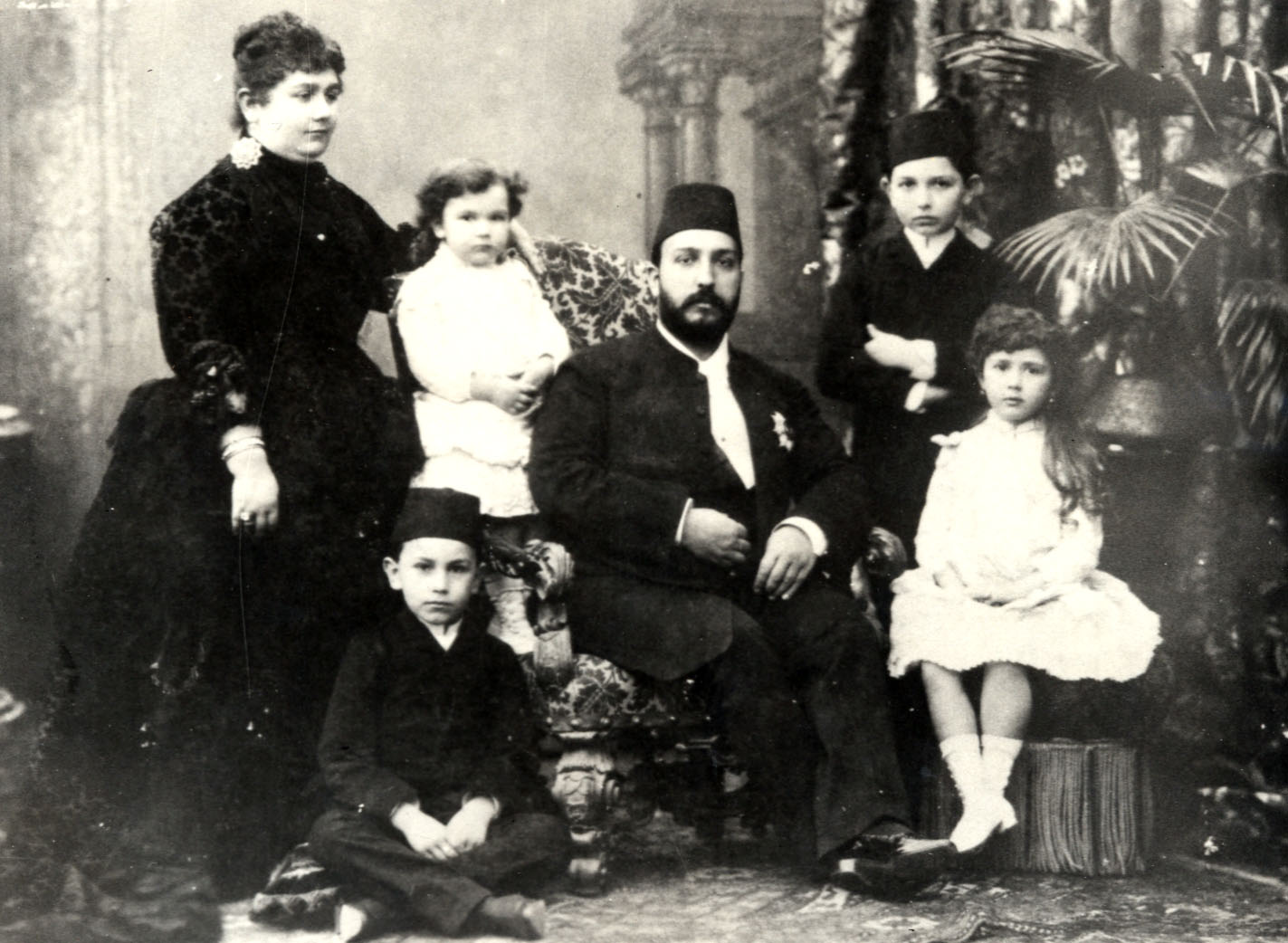 Khedive Tawfiq Pasha of Egypt (1852–1892) seated on a fauteuil and surrounded by his wife and children. Standing on the left is his wife Princess Amina Elhami (1858–1931). Next to her are Princess Nimet (1882–1965) and Prince Abbas Hilmi (1874–1944), sitting on the floor. On the right side of the photograph are Prince Muhammad Ali (1875–1955) and Princess Khadiga (1880–1951).